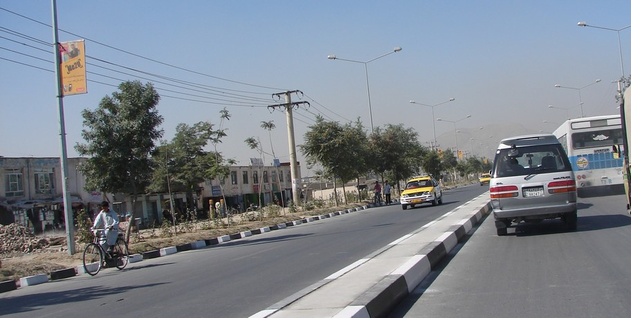 Airport Road in Kabul City